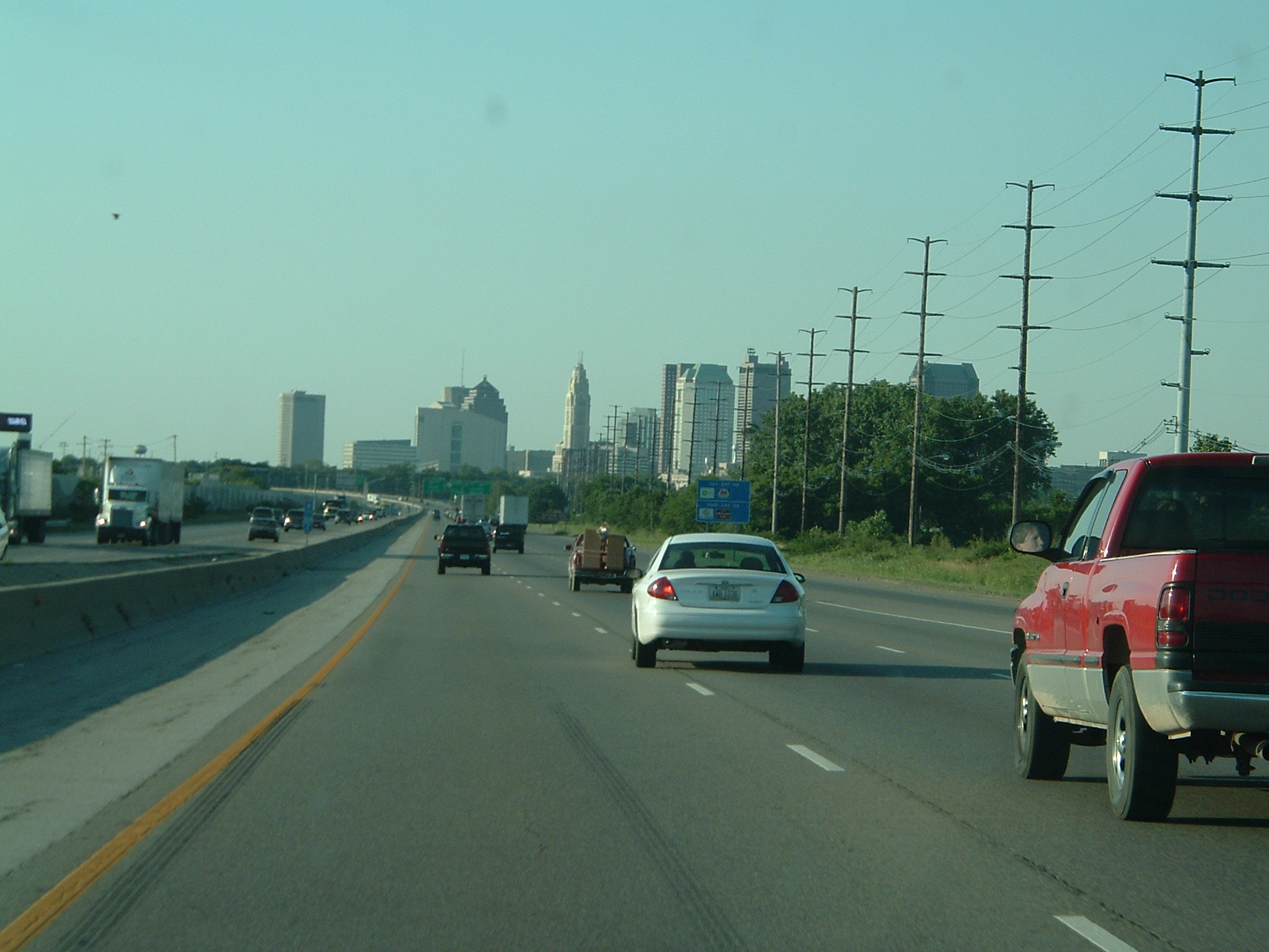 Interstate 71 south of Columbus traveling Northbound. Self made photo.